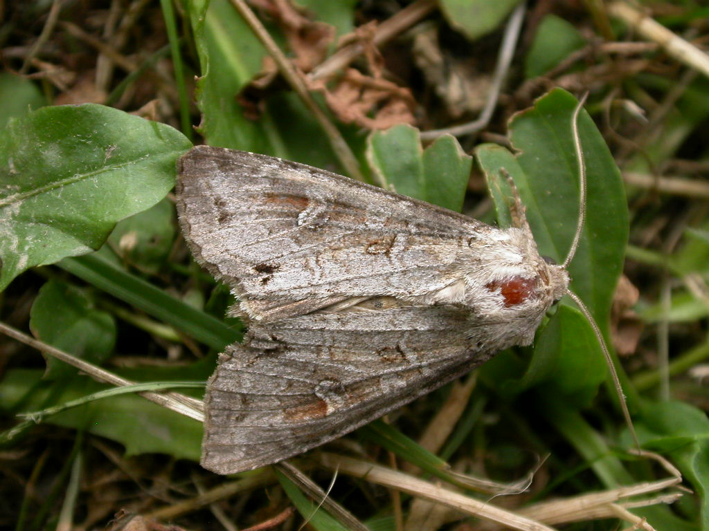 Polia bombycina, to MV light, Hellerup, Denmark, 14 July 2005